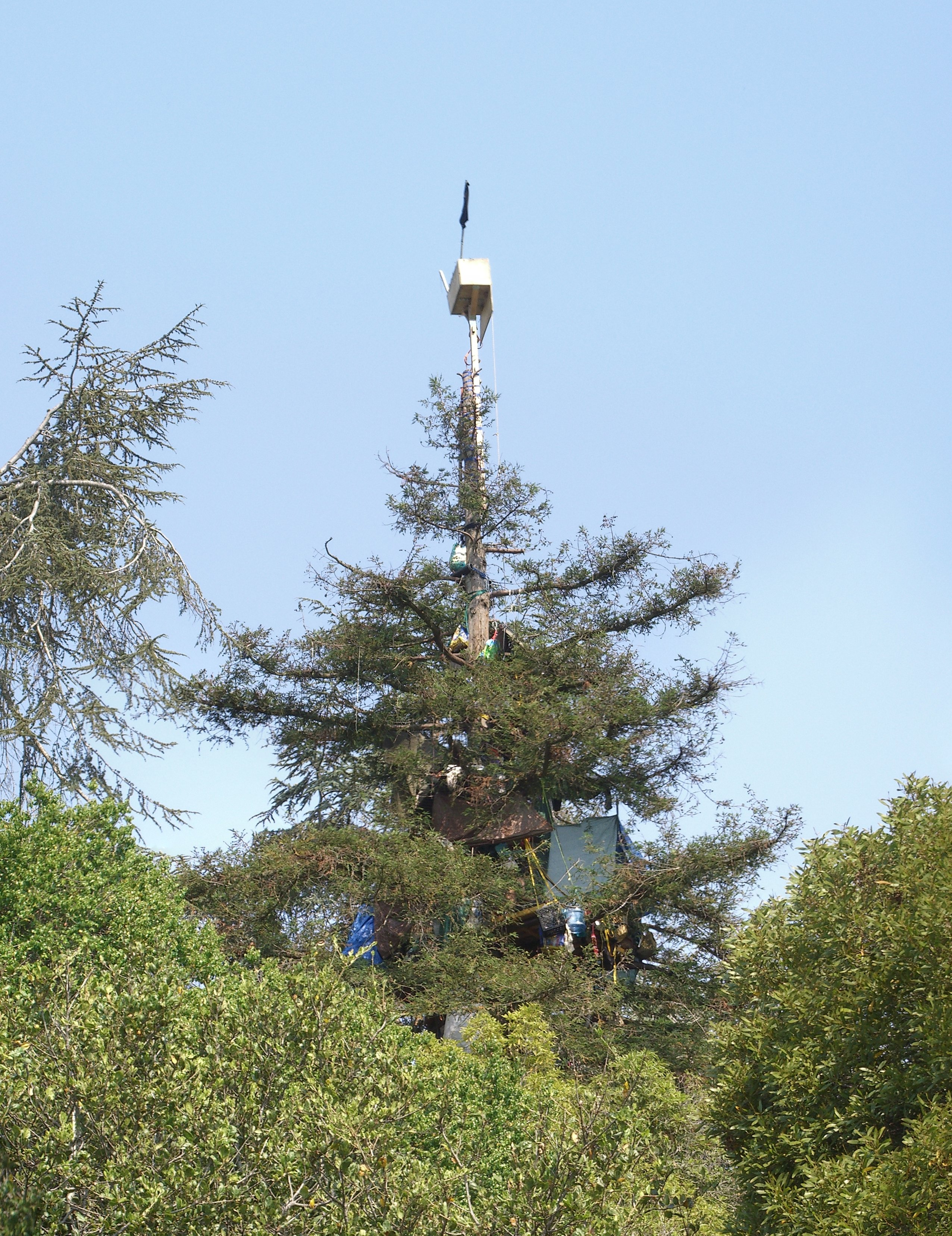 The camp of tree-sitters protesting the removal of trees by the University of California, Berkeley in preparation for a new athletic center.